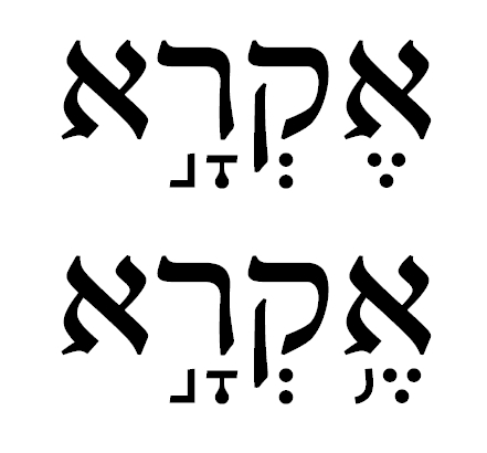 Example of shwa-nakh and shwa-na in the same word